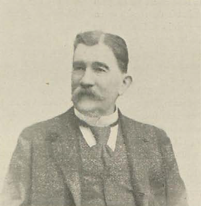 Agustín Ortiz de Villajos.